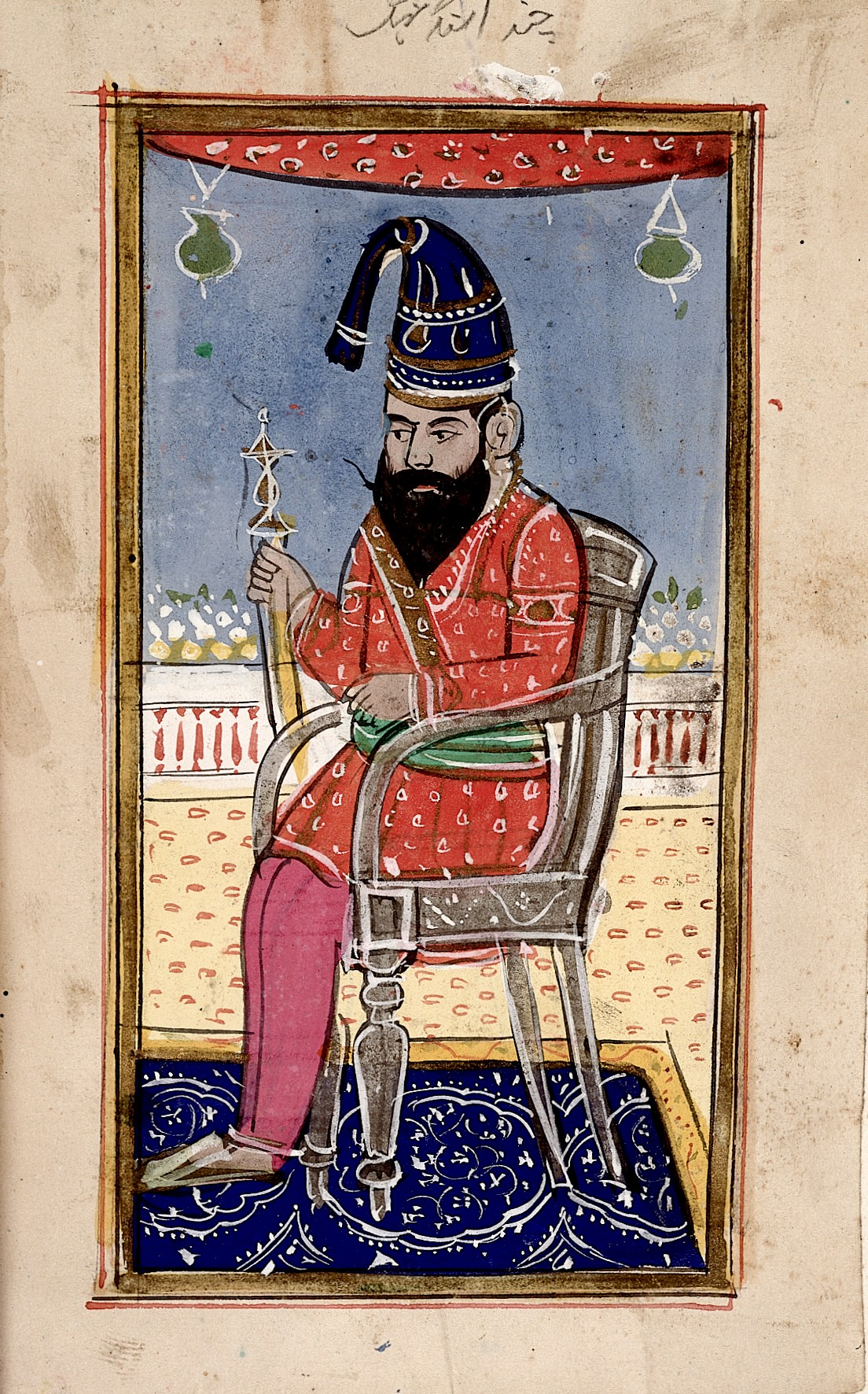 Akali Phula Singh (1761 - 1823) Iconographic Collections Keywords: Sikhism; India; Ph¯ul¯a Si°ngha